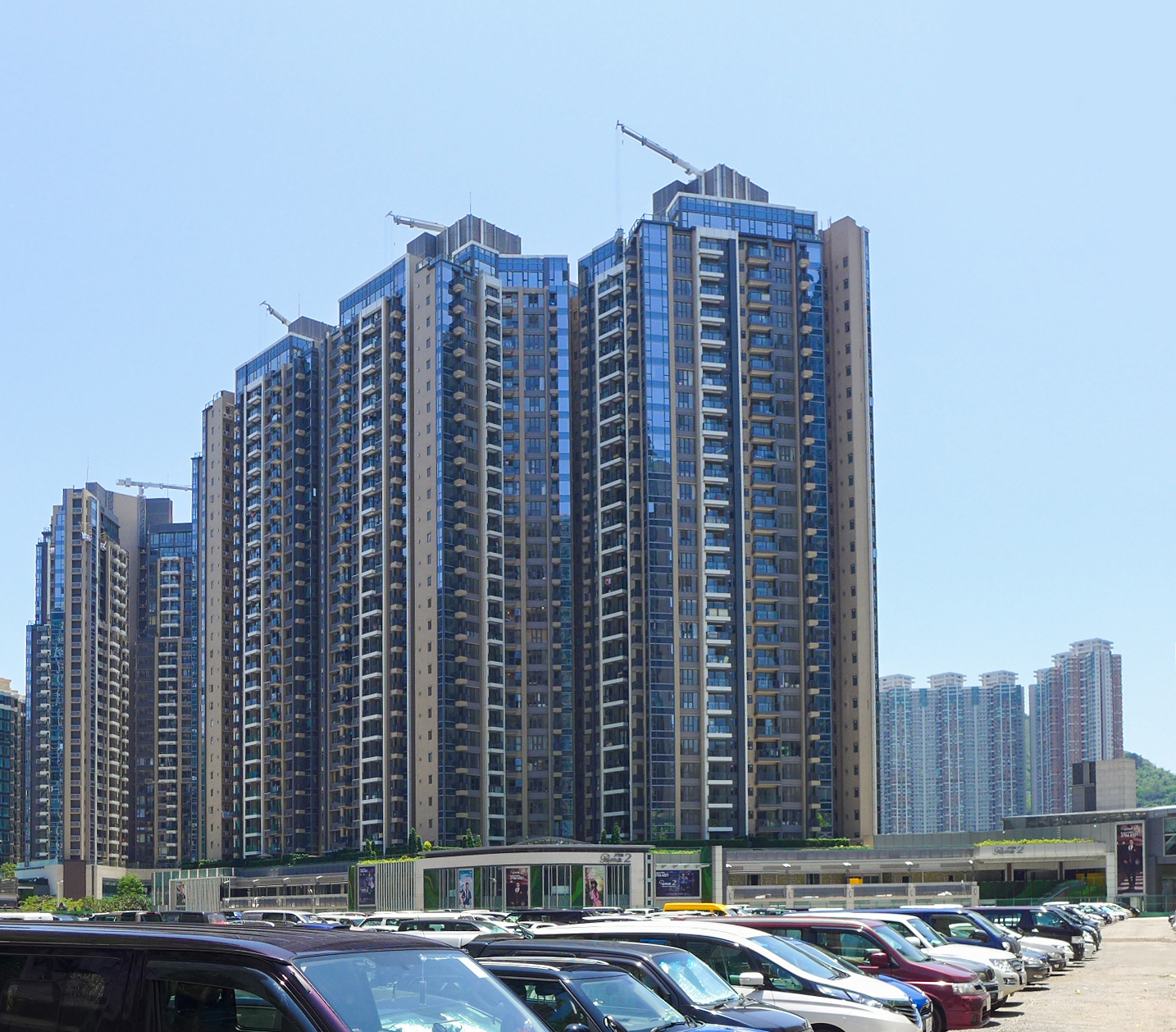 The Wings III